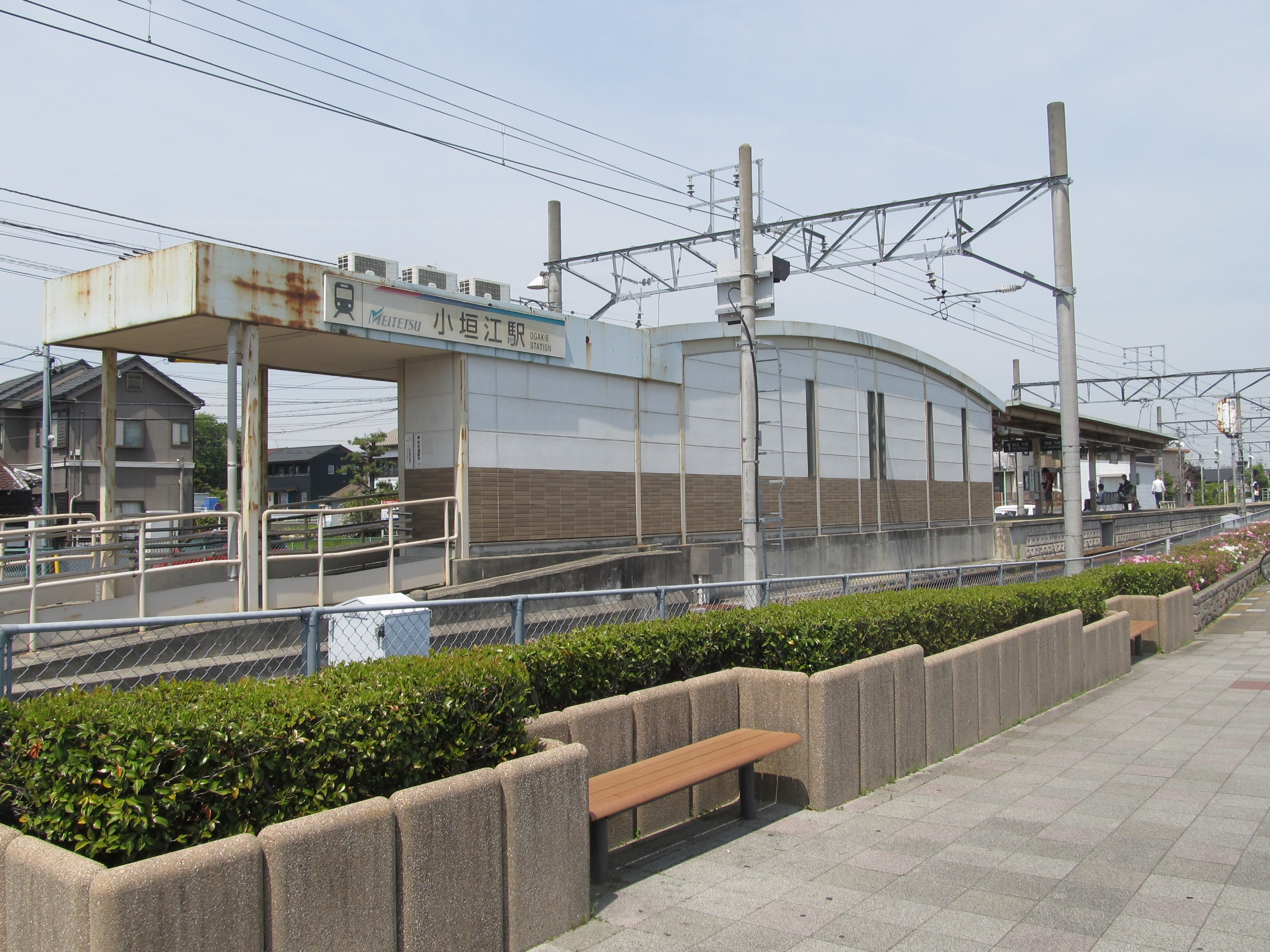 Nagoya Railroad Mikawa Line Ogakie Station Building